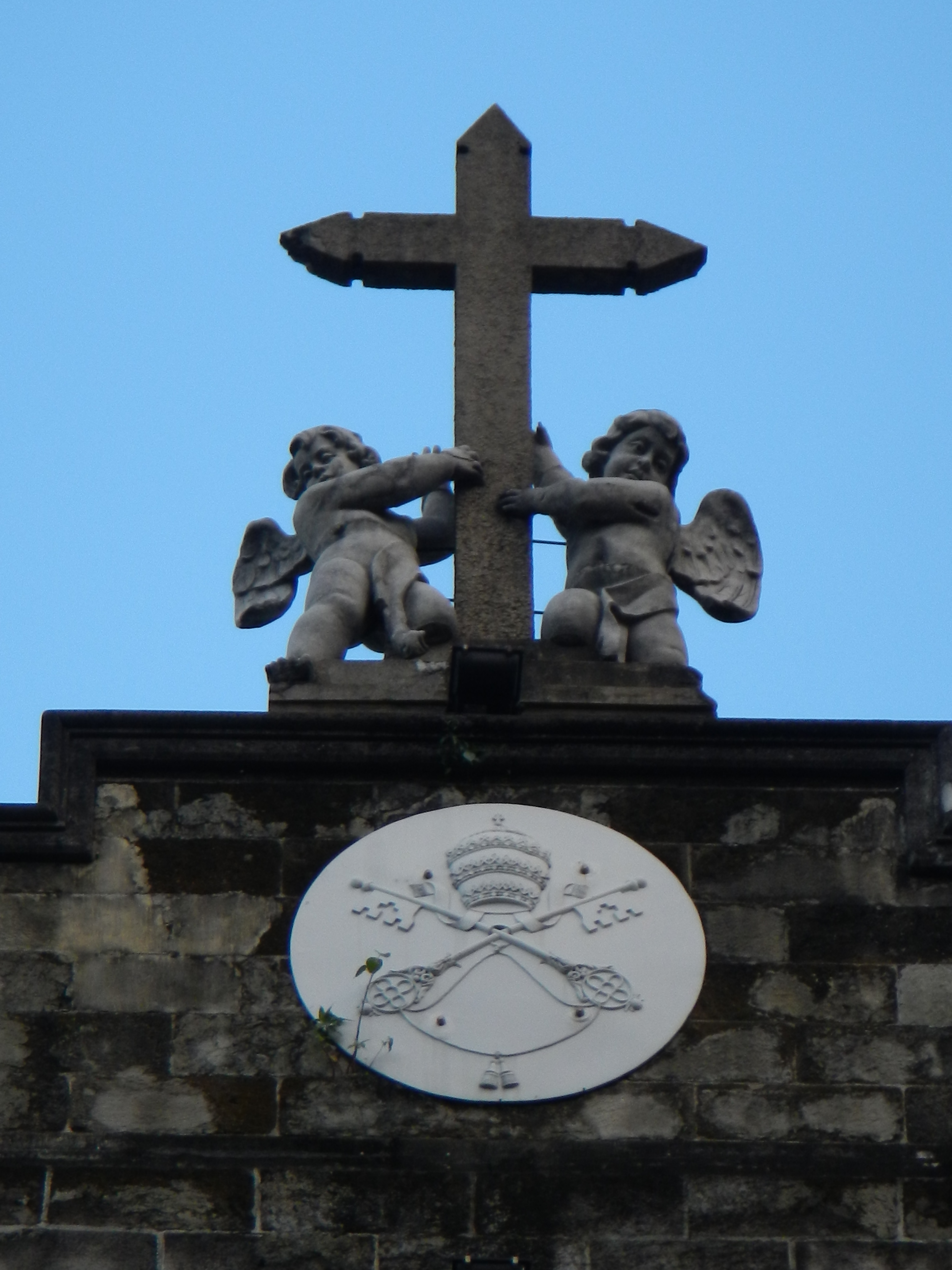 Manila Cathedral[1]The Manila Metropolitan Cathedral-Basilica, officially known as the Cathedral-Basilica of the Immaculate Conception and informally as Manila Cathedral, is a prominent Latin Rite Roman Catholic basilica located in Manila, Philippines, honoring the Blessed Virgin Mary as Our Lady of the Immaculate Conception, the Principal Patroness of the Philippines. Located in the Intramuros district of Manila, it was originally a parish church owned and governed by the diocese of Mexico in 1571, until it became a separate diocese on February 6, 1579 upon the issuance of a Papal bull Illius Fulti Praesido by Pope Gregory XIII.[2] The cathedral serves both as the Prime Basilica of the Philippines and highest seat of the archbishop in the country. The cathedral was damaged and destroyed several times since the original cathedral was built in 1581. The eighth and current incarnation of the cathedral was completed in 1958.[3] The basilica has merited three papal endorsements and two apostolic visits from Pope Gregory XIII, Pope Paul VI and Blessed Pope John Paul II, who through the papal bull Quod Ipsum declared the cathedral a minor basilica by his own Motu Proprio on April 27, 1981.[4]